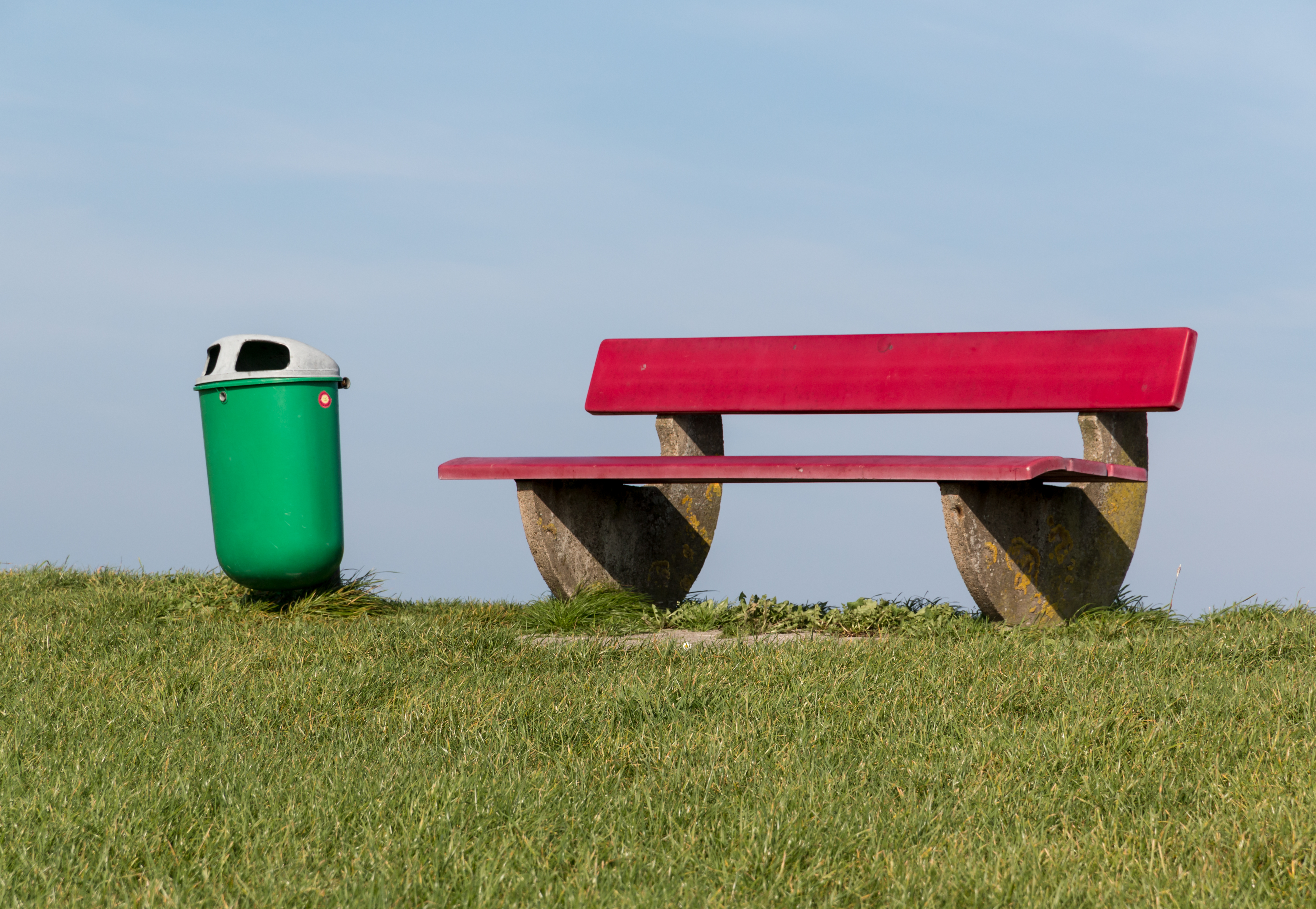 Park bench on the dike, Juist, Lower Saxony, Germany